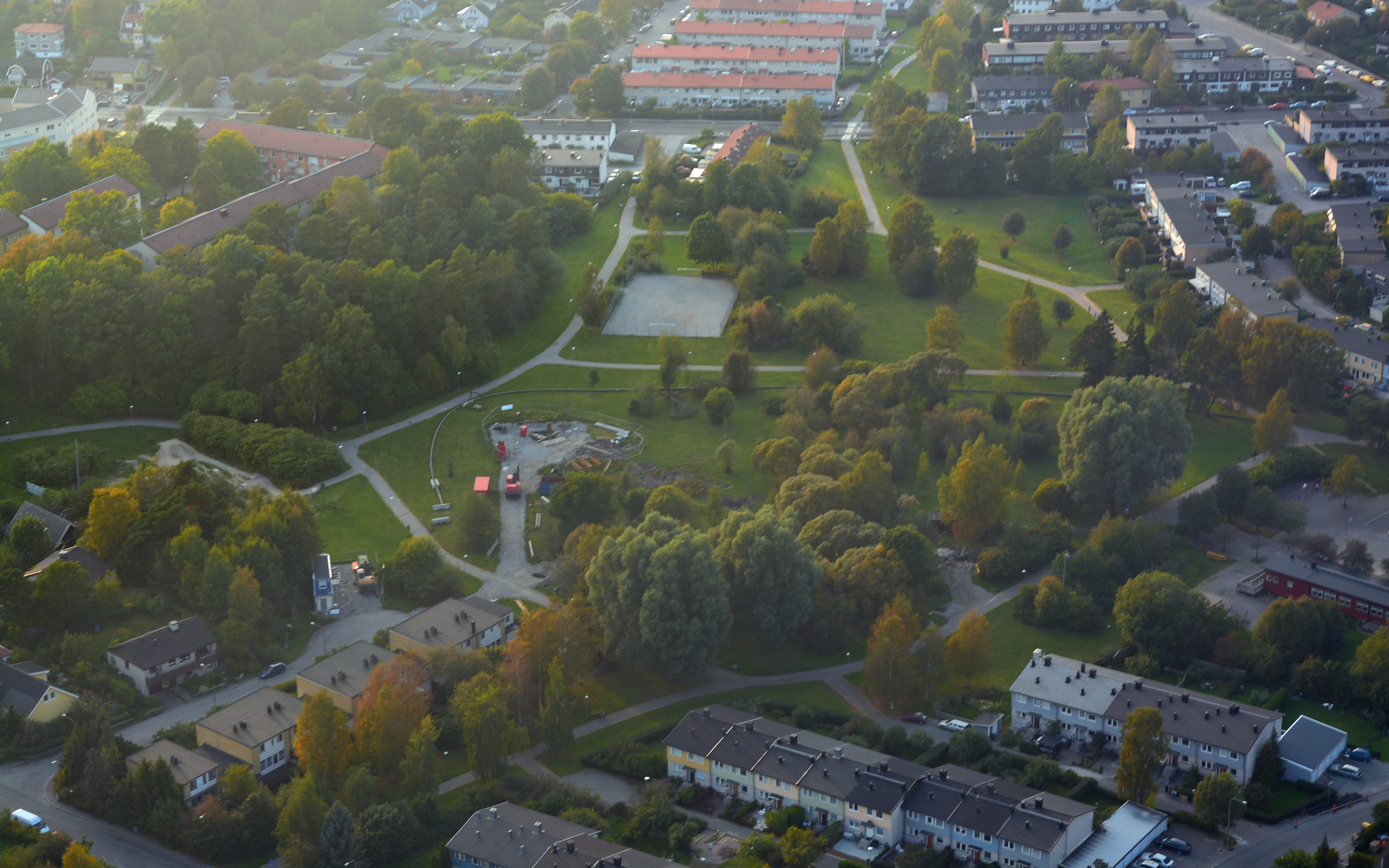 Nälsta in western Stockholm, Sweden.